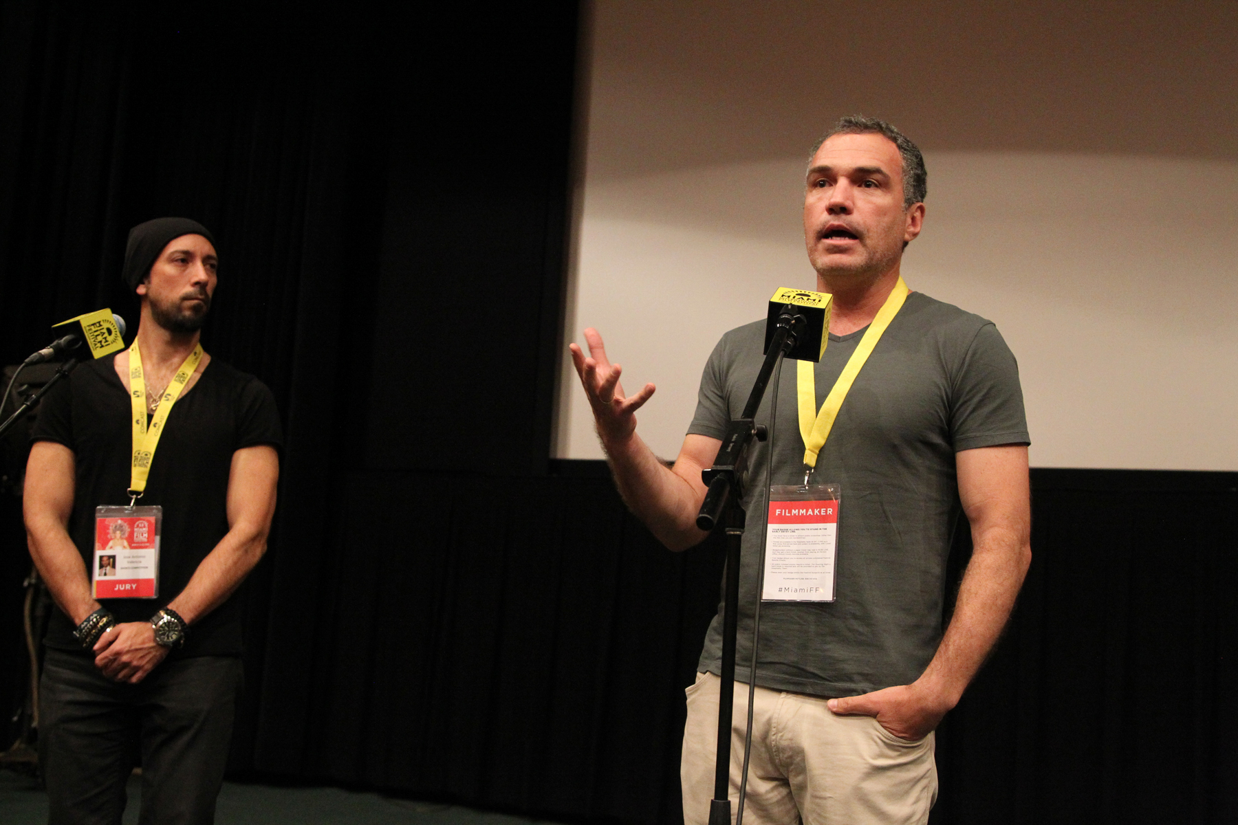 Salvador del Solar at the Miami Film Festival presentation of Magallanes Photo: David Heischrek